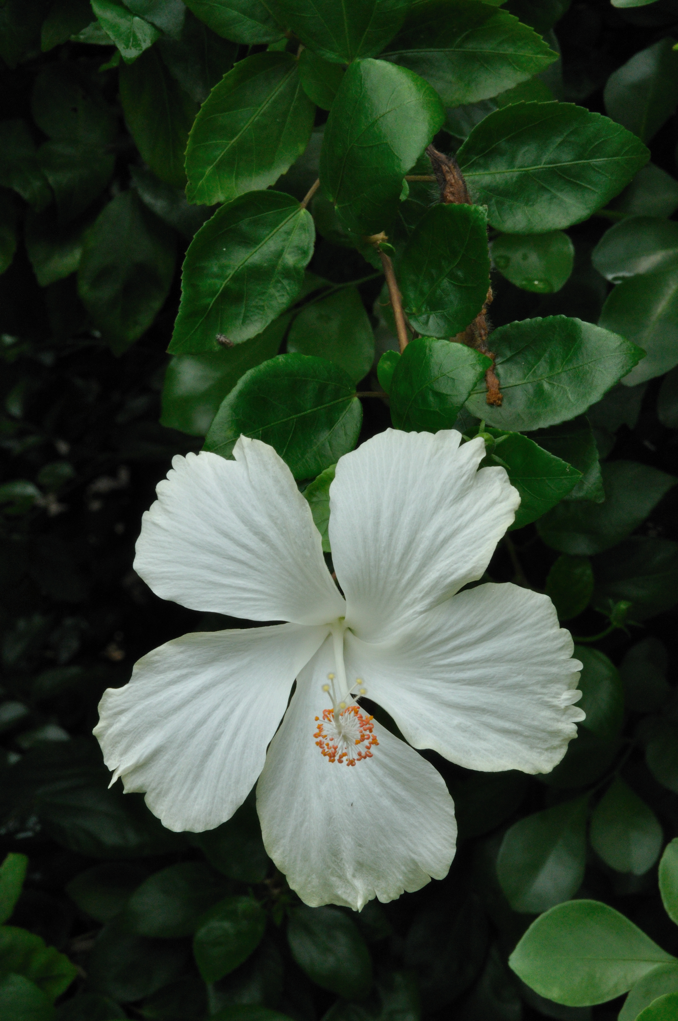 This white Hibiscus in Bengali:Sadaa Jabaa is not a very common flower. Photographed at Kolkata.